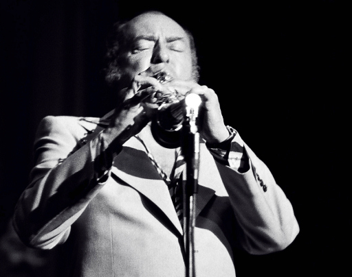 Woody Herman Rochester, N.Y. 1976